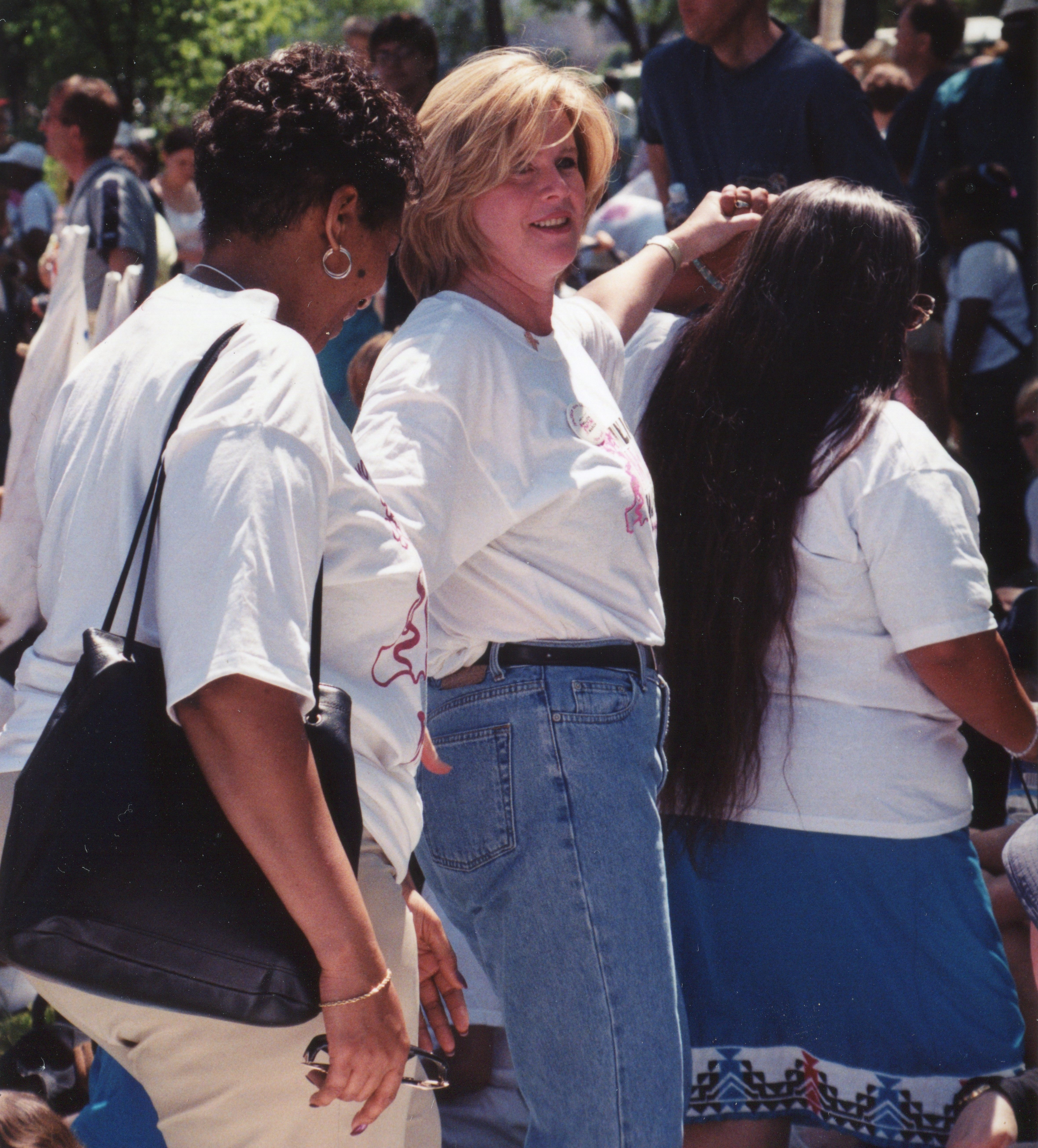 MILLION MOM MARCH on the National Mall in Washington DC on Sunday, 14 May 2000 by Elvert Barnes Photography Second Lady, Tipper Gore, Wife of Vice President Al Gore MILLION MOM MARCH at Wikipedia at Elvert Barnes GUN CONTROL PROTESTS ongoing project at